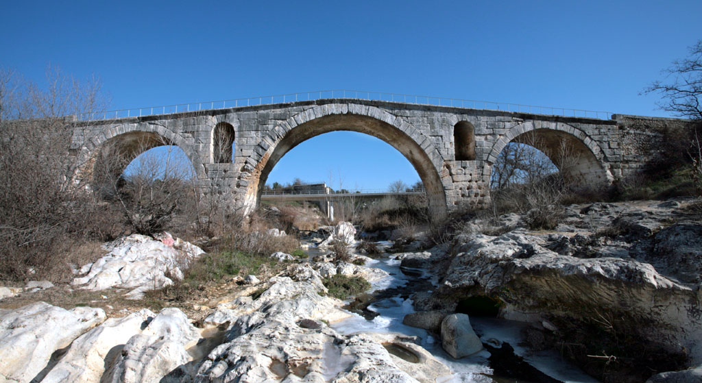 view from west of the roman bridge "Pont Julien" in Vaucluse, France